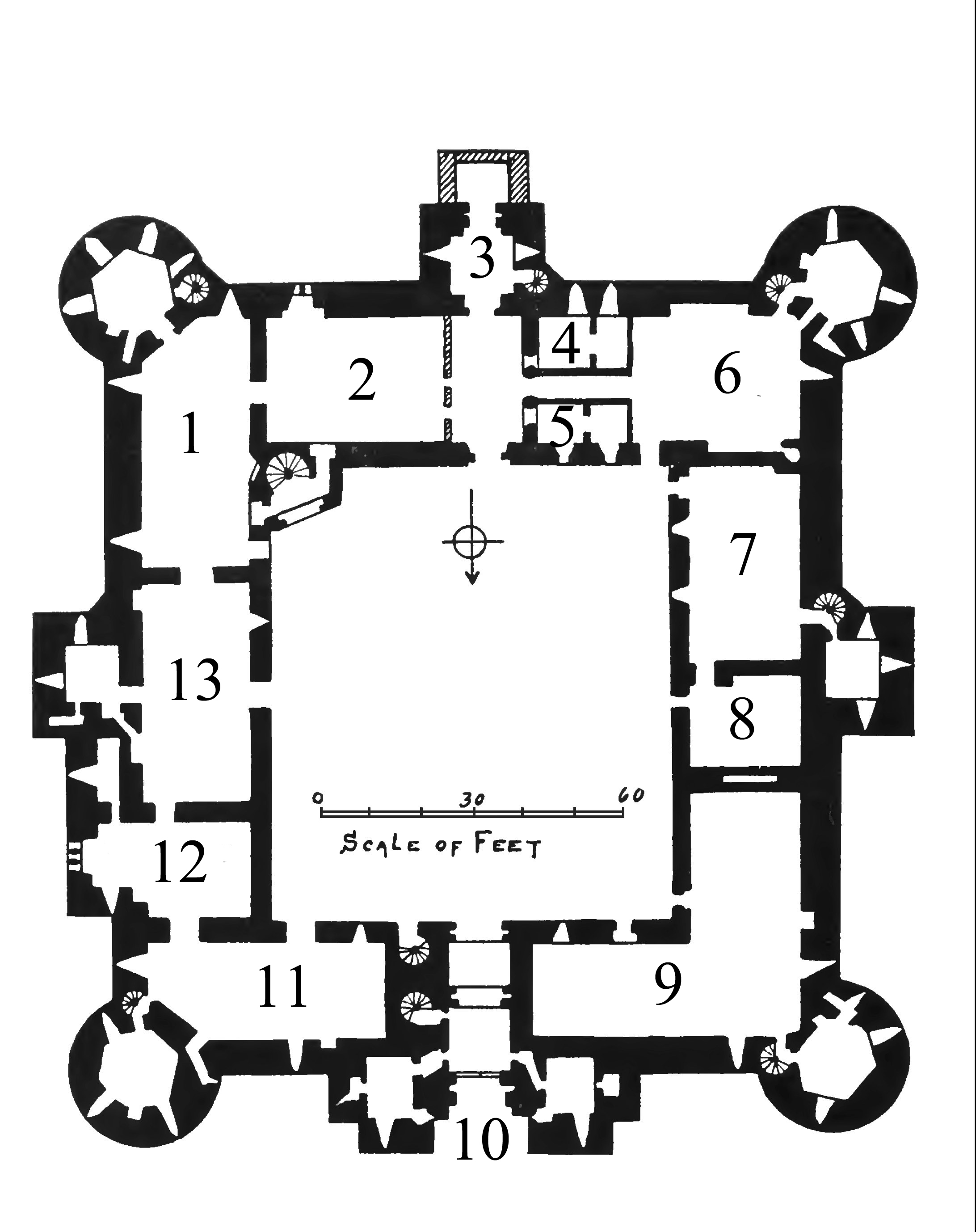 Bodiam Castle ground plan as it may originally have appeared. Sections of wall that no longer stand are included. 1. Ante room 2.Great Hall 3. Postern tower 4. Pantry 5. Buttery 6. Kitchen 7. Retainer's hall 8. Retainer's kitchen 9. Possible stables and service rooms 10. Gatehouse 11. Household apartments 12. Chapel 13. Hall Description based on Thackray, David (2004), Bodiam Castle, The National Trust, p. 32, ISBN 978-1-84359-090-3 . The difference between the 2004 plan and this is that the 2004 one had three rooms in place of numbers 1 and 13. The three rooms that occupy the position of 1 and 13 are labelled "ante room", "hall", and "chamber".